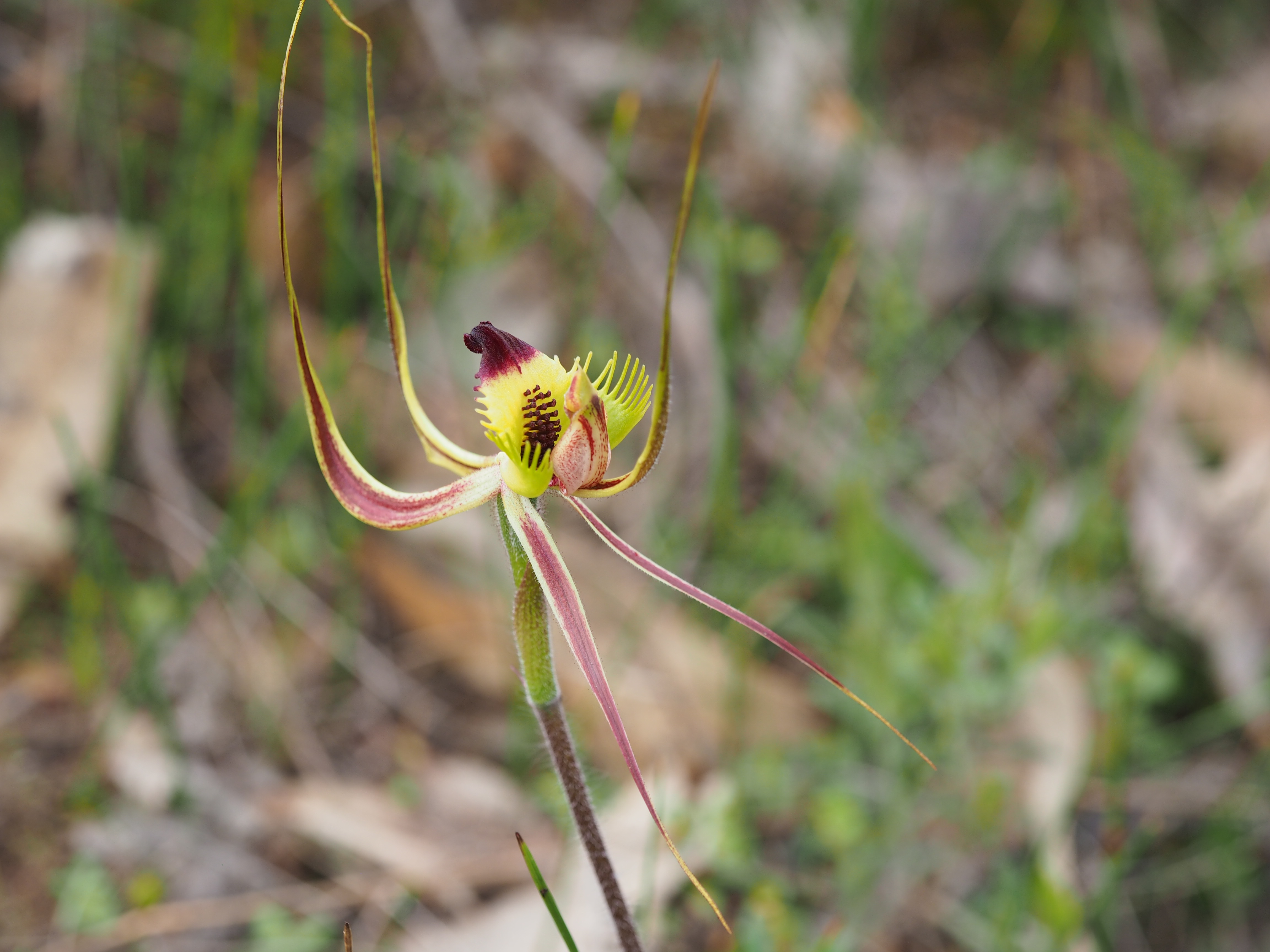 Caladenia falcata growing near Qualen Road in the Wandoo National Park in Western Australia